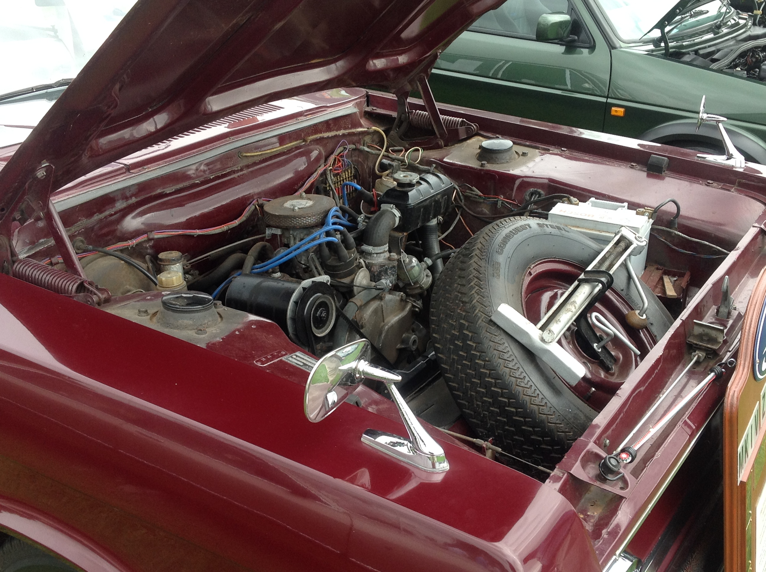 Classics at the Castle, Sherborne, Dorset